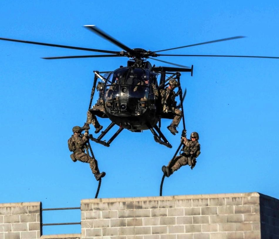 A MH-6M from the w:160th Special Operations Aviation Regiment (Airborne) inserts a team of Army Rangers atop a building using the Fast-Rope Insertion/Extraction System (FRIES)